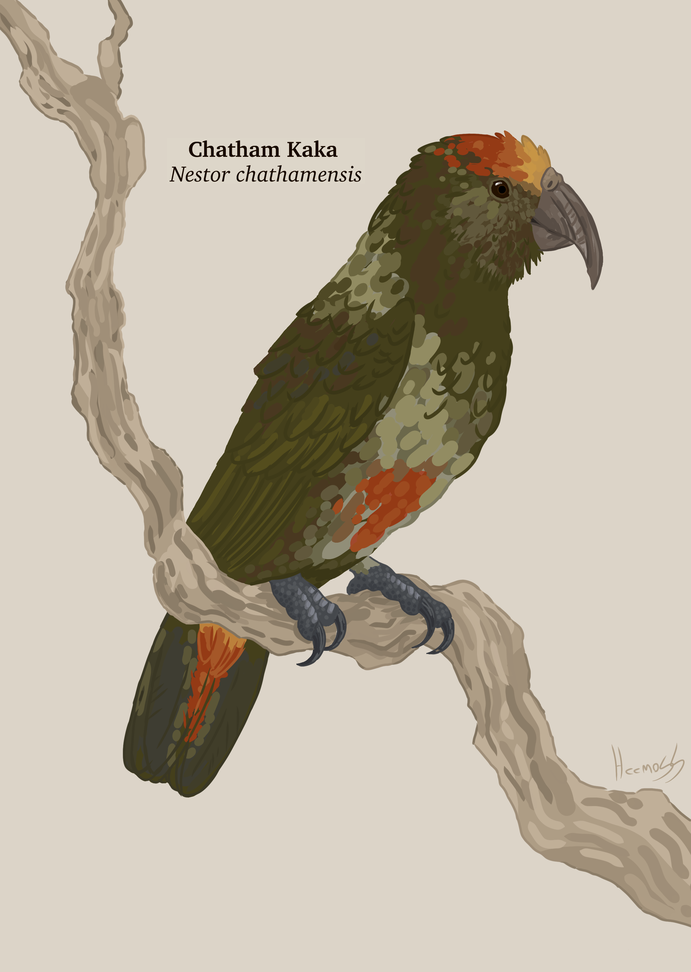 An artistic reconstruction of the extinct parrot Nestor chathamensis. Drawn digitally using Procreate, finished December 16, 2019.